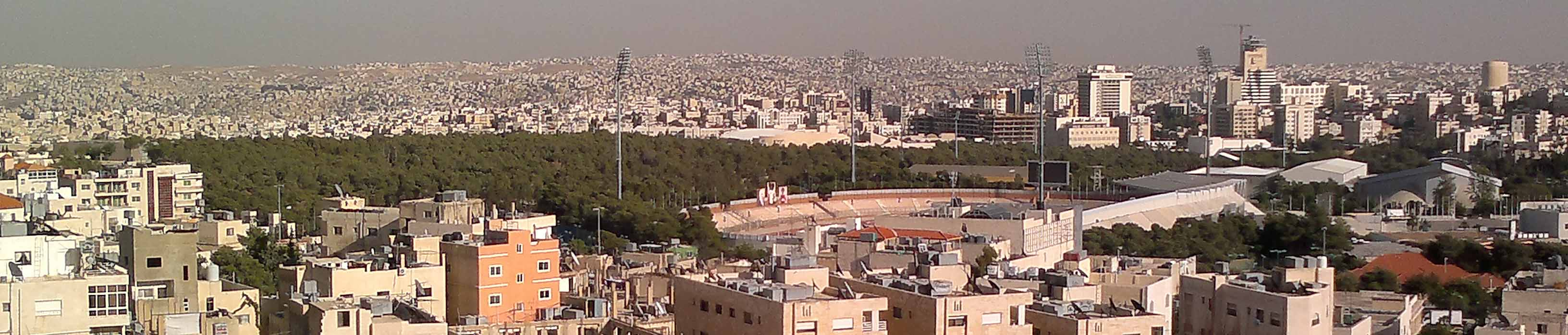 Amman Sport City Panorama